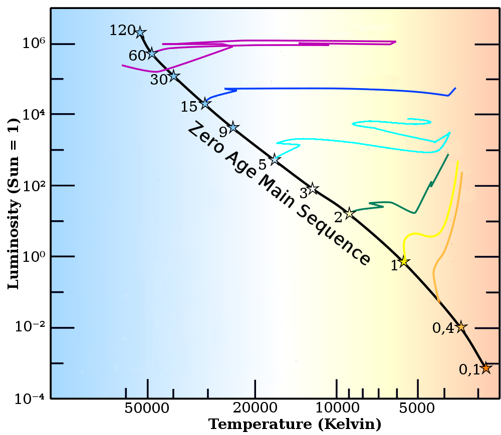 Stellar evolutionary tracks on an HR diagram with text along the Zero Age Main Sequence